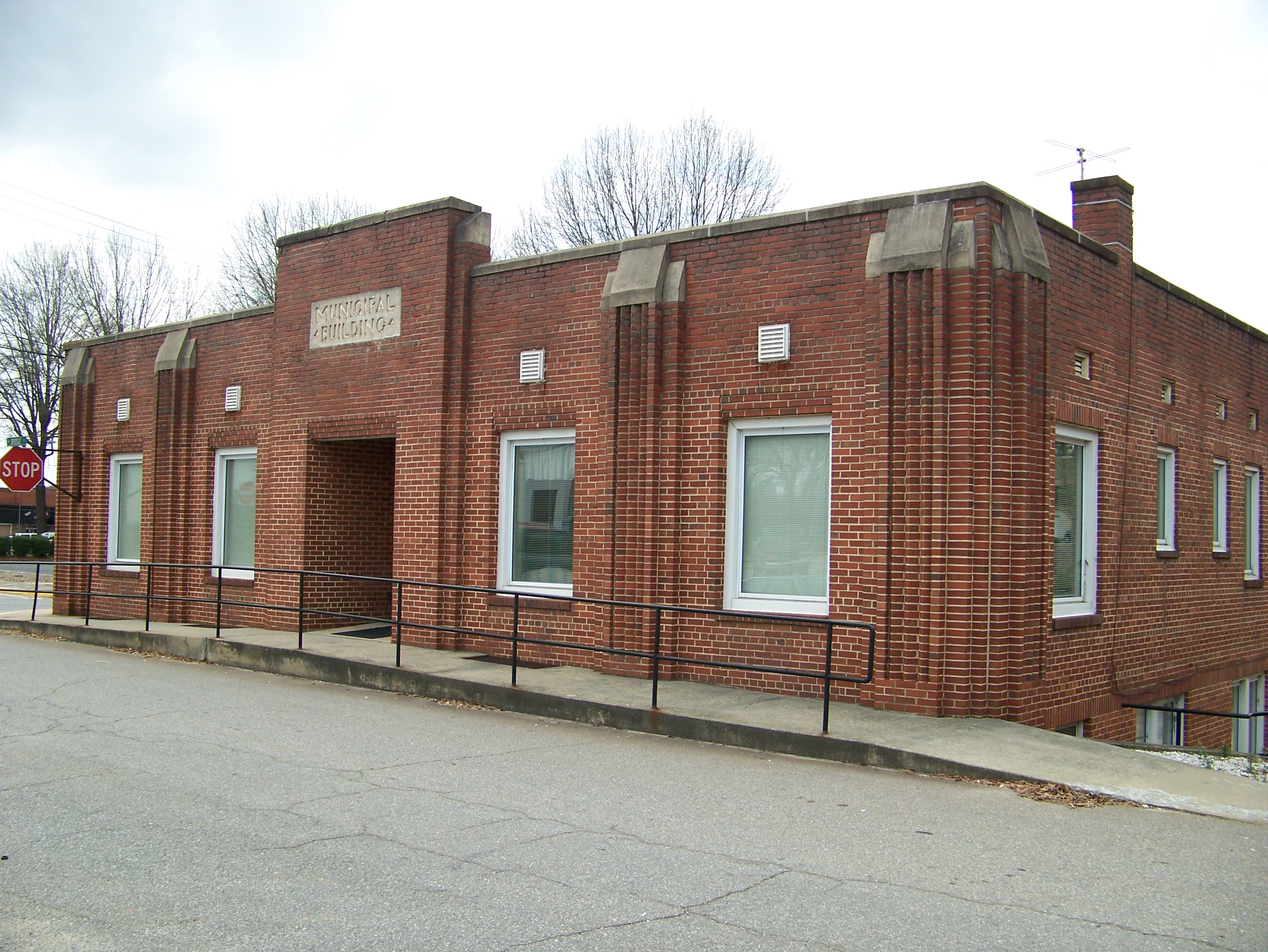 Part of the Downtown Wilkesboro Historic District